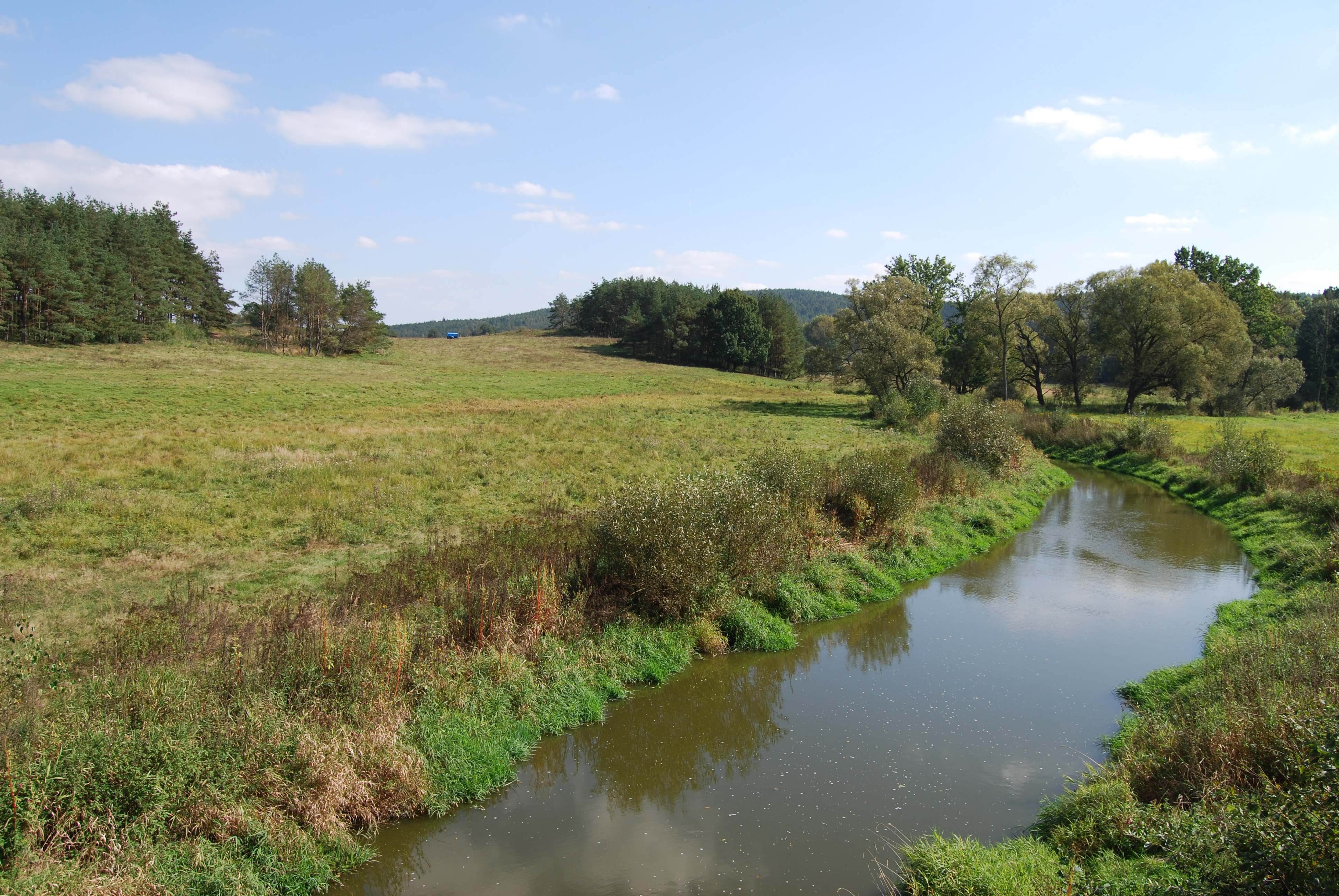 Lomnice River near Míreč village, Czech Republic.